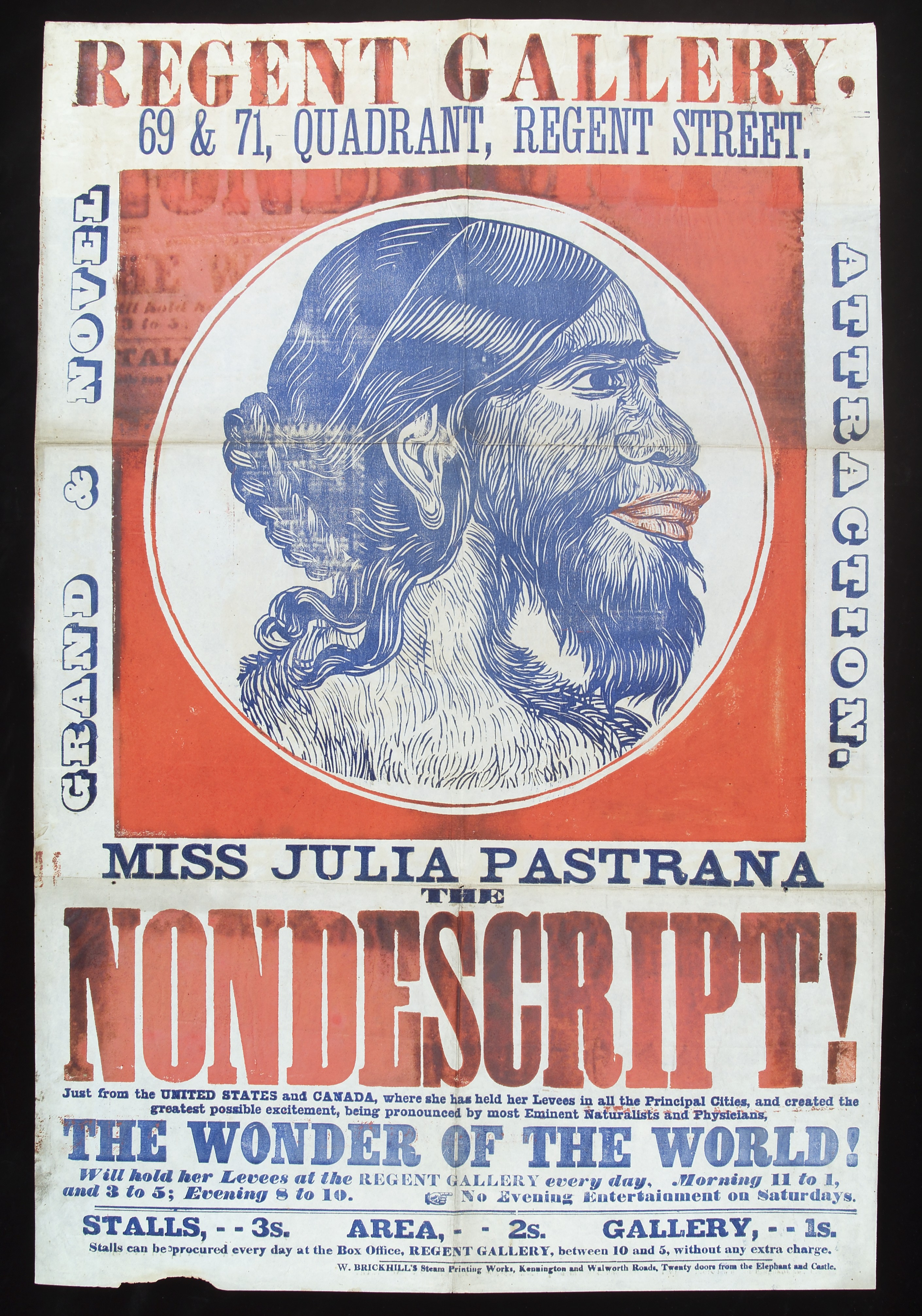 Julia Pastrana, "the nondescript", advertised for exhibition of the famous bearded Lady. Iconographic Collections Keywords: Regent Gallery (Regent Street, London, England); Julia Pastrana; Hypertrichosis; Human Curiosities